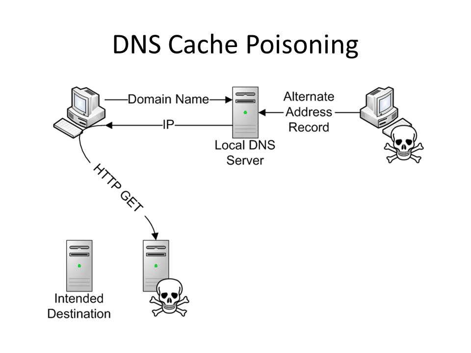 DNS cache poisoning